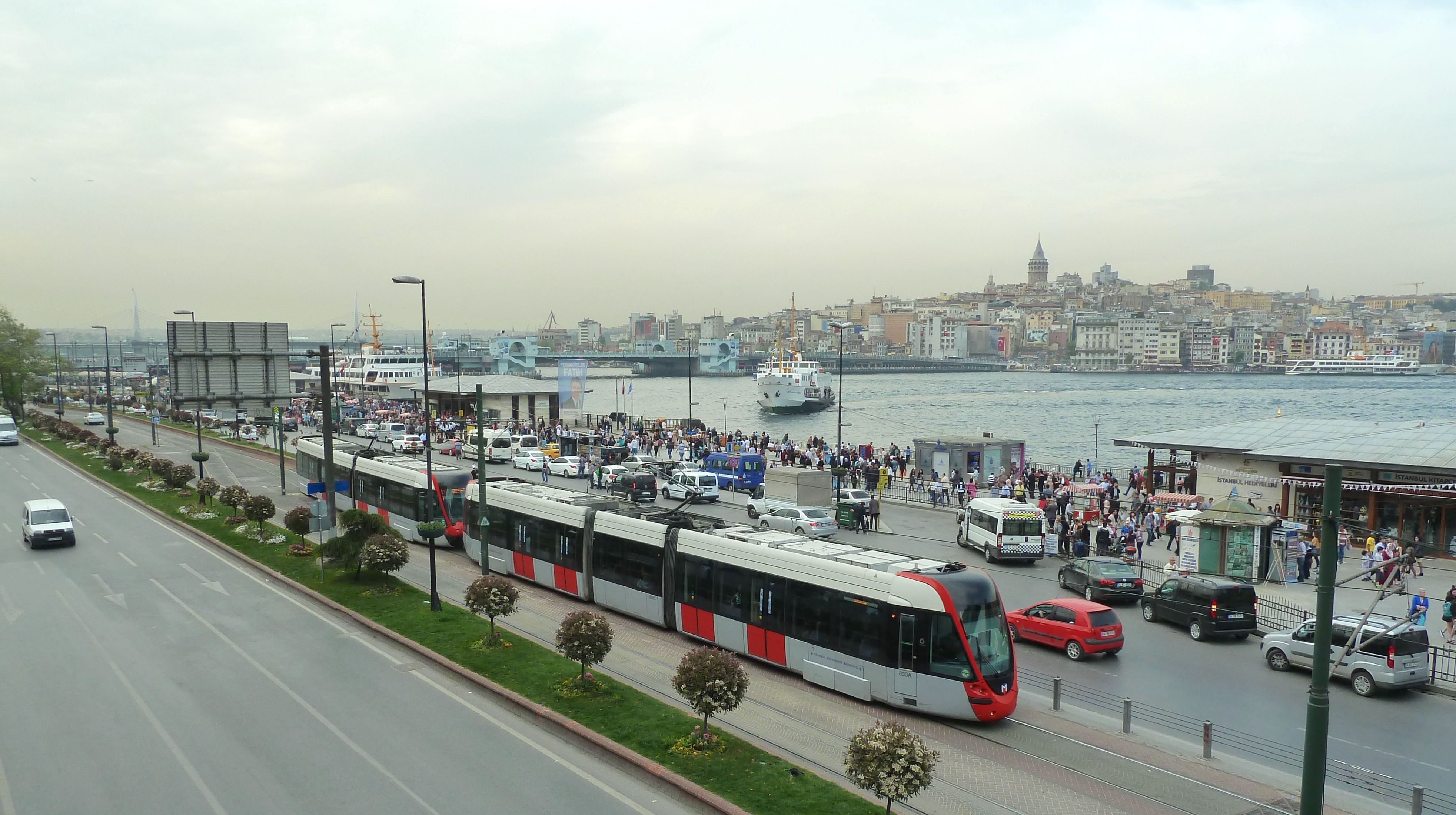 An Alstom tram set on Istanbul route T1 at Eminönü. In the background, Motor Vessel "Sehit Mustafa Aydogdu" is approaching the pier, and the Galata Bridge can also be seen.